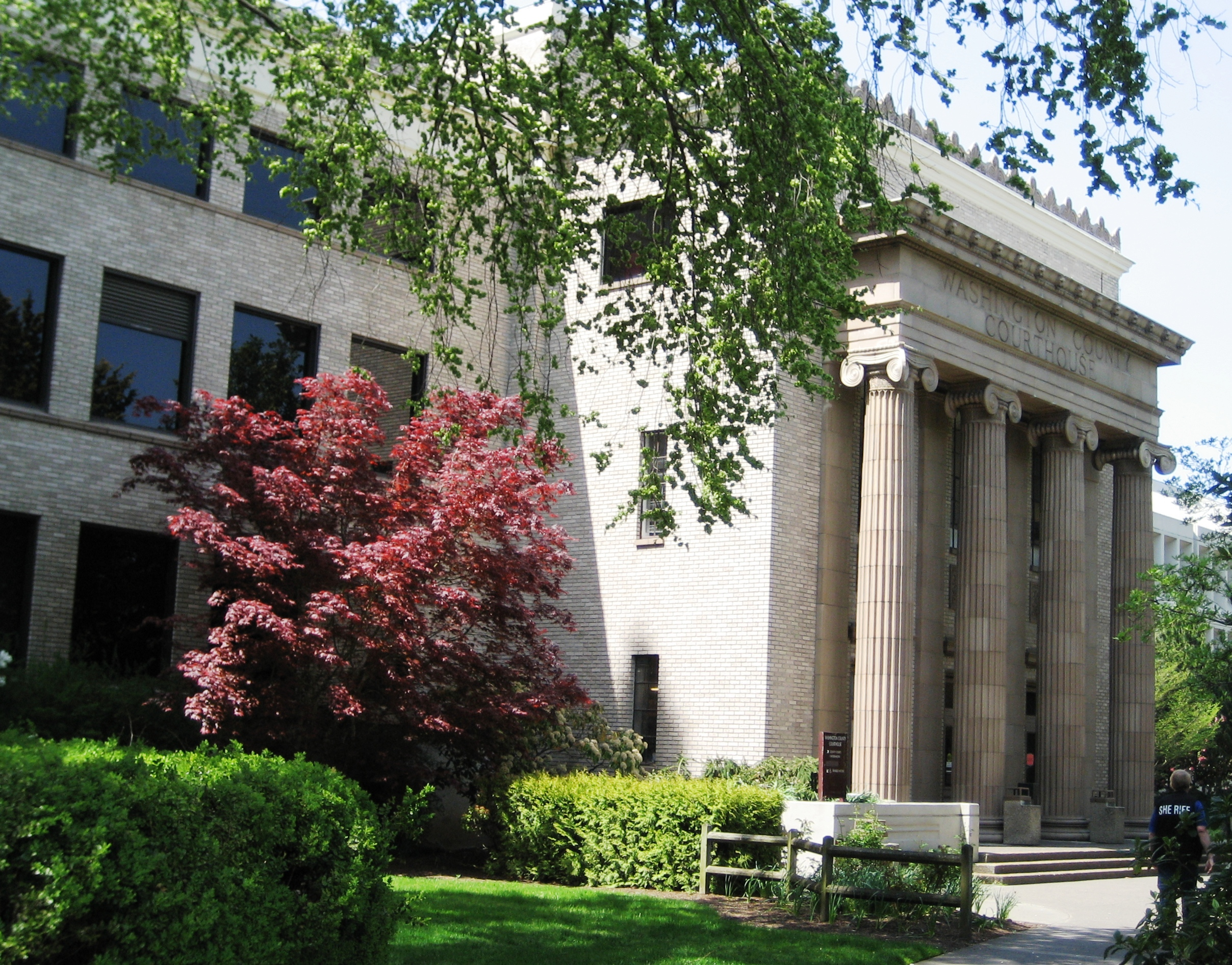 Washington County Courthouse (Oregon)